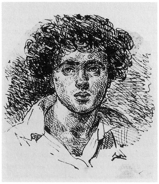 Self-portrait of the french artist J. J. Grandville, pen-and-ink drawing.